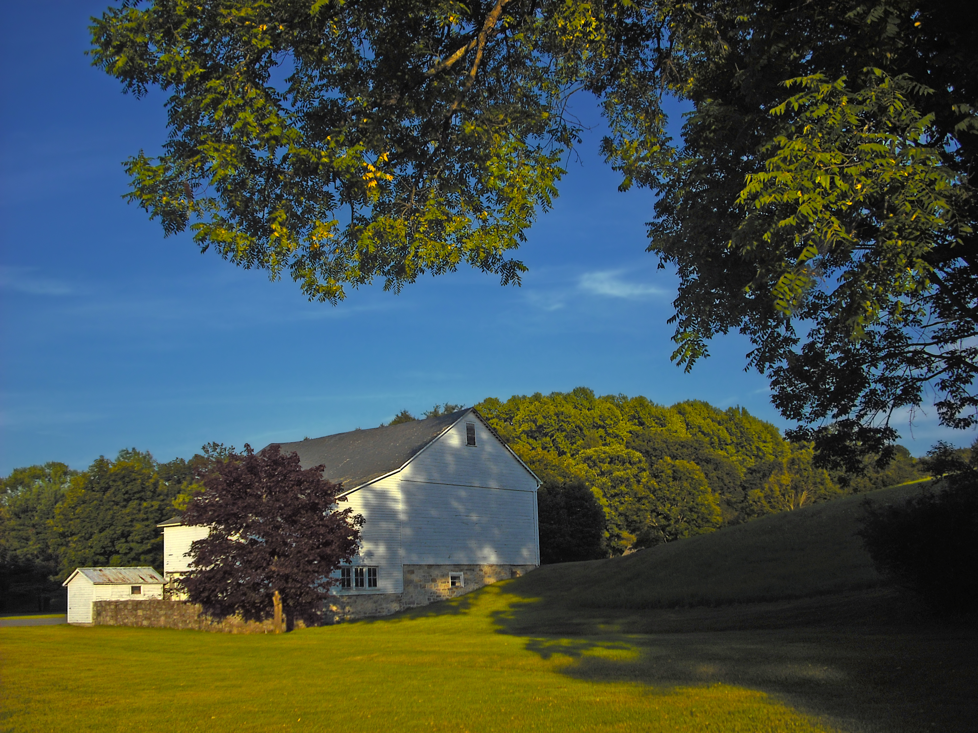 Late-day light, Ross Township, Monroe County, Pennsylvania